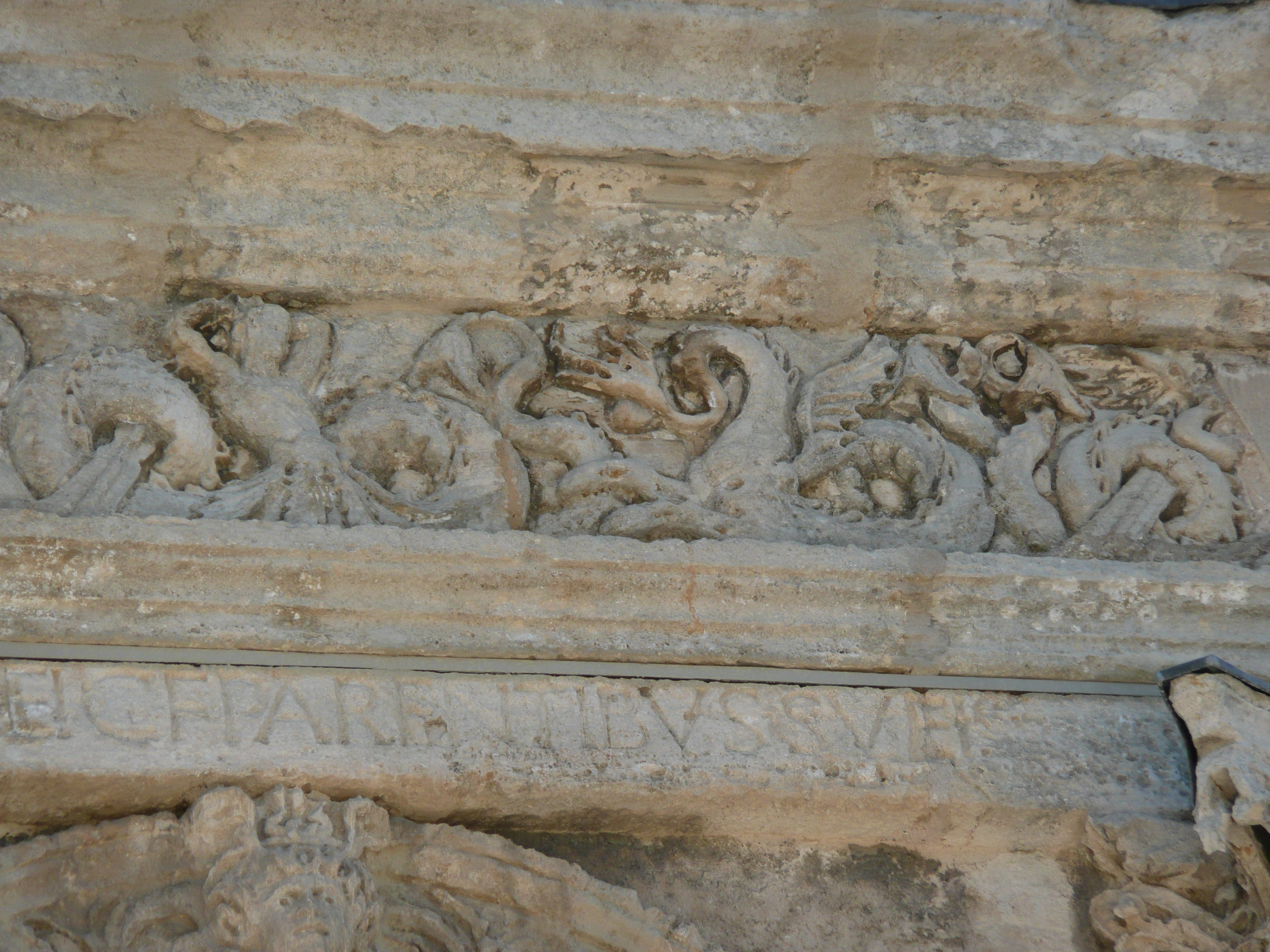 Glanum mausoleum